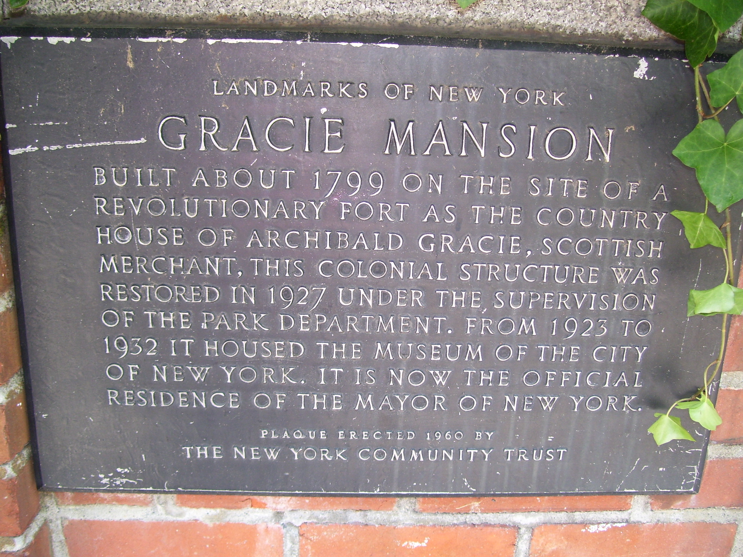 A plaque on Gracie Mansion, NYC